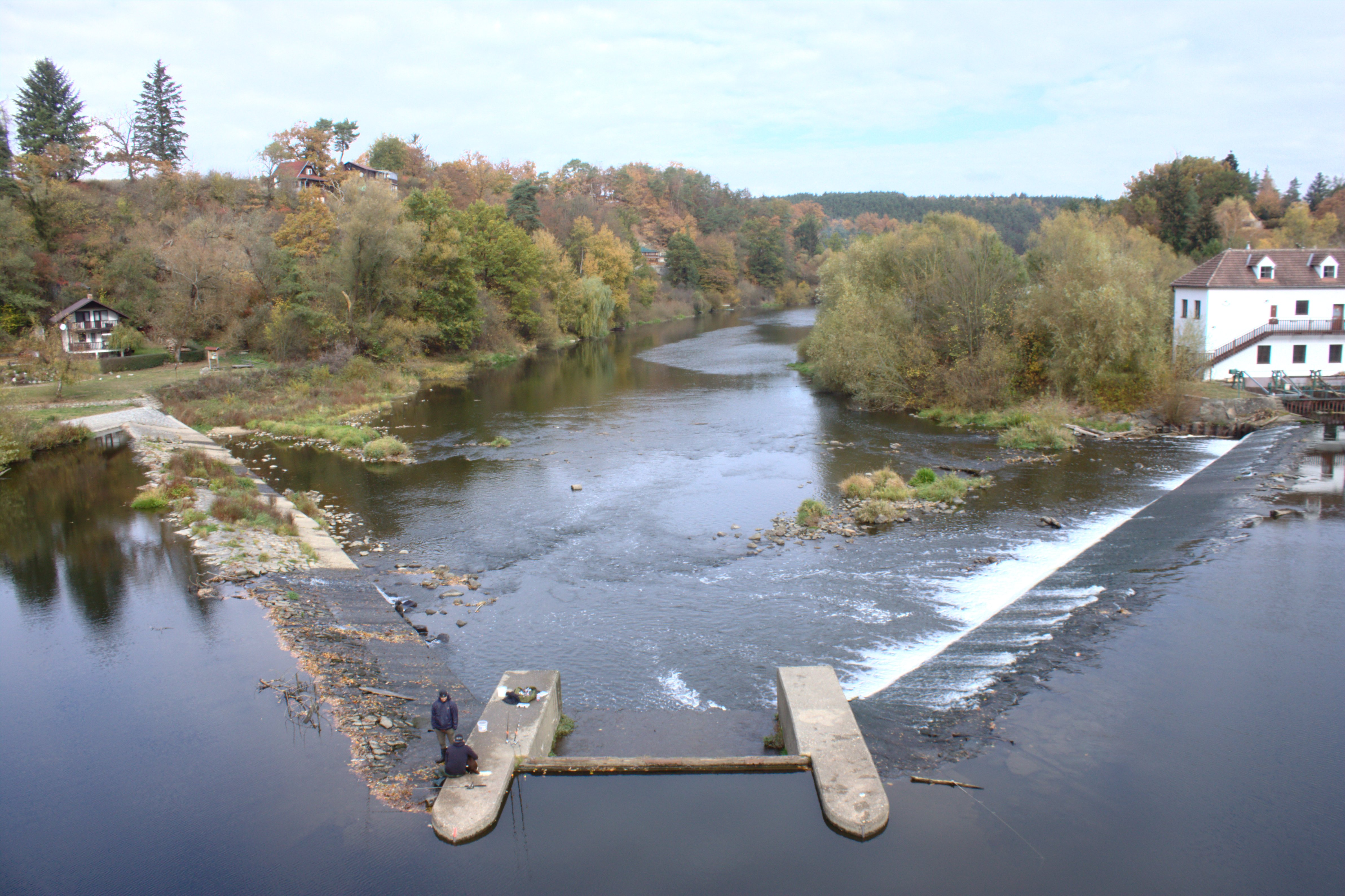 View of the Otava River from around Vrcovice, South Bohemian Region, CZ